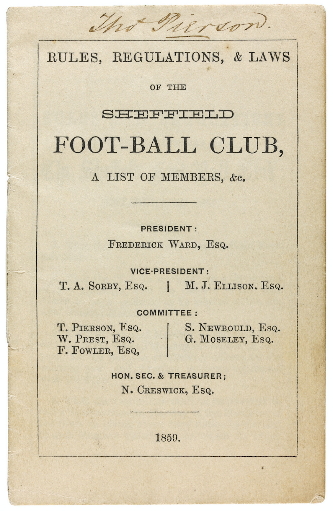 Front page of Rules, Regulations, & Laws of the Sheffield Foot-Ball Club, a list of members, &c. Sheffield: Pawson and Brailsford, 1859, first edition, 16mo (122 x 77 mm), the only known surviving copy of the first printing of the first club's laws of football.